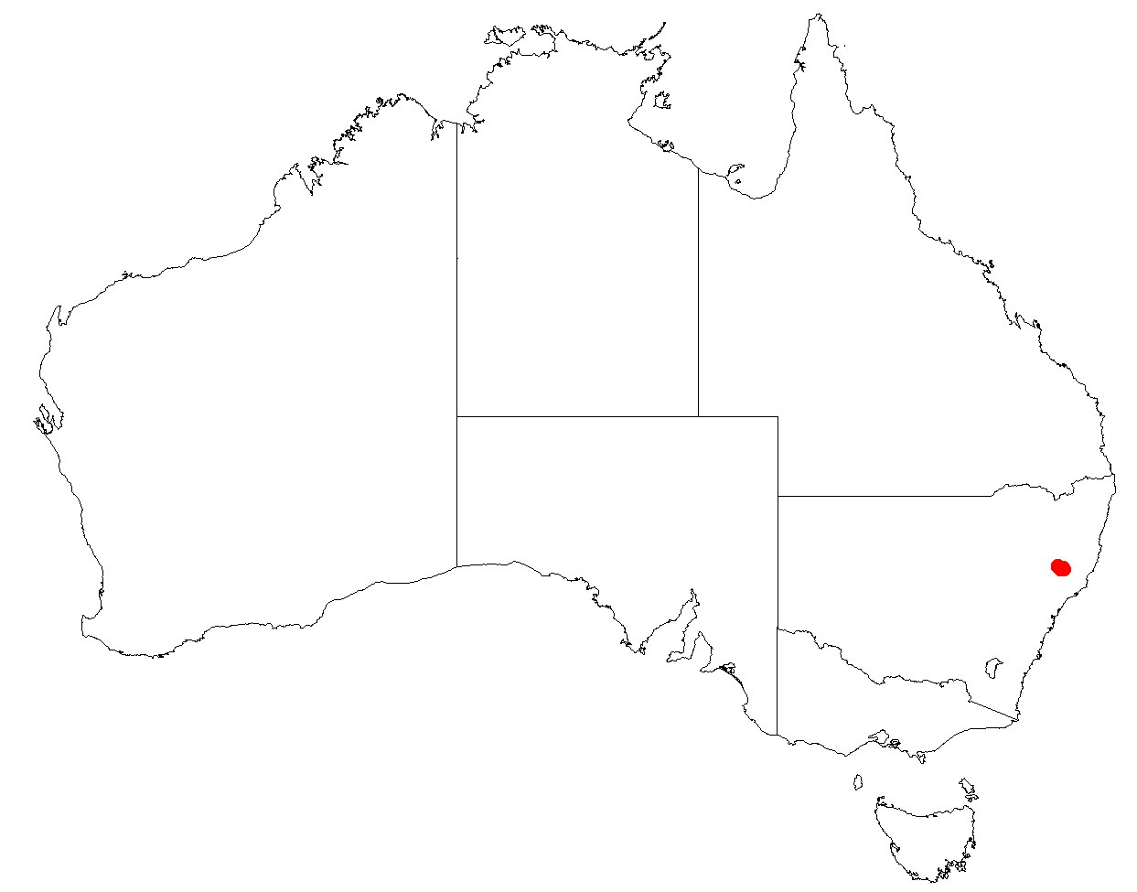 Allocasuarina ophiolitica occurrence data from Australasian Virtual Herbarium downloaded 4 July 2018